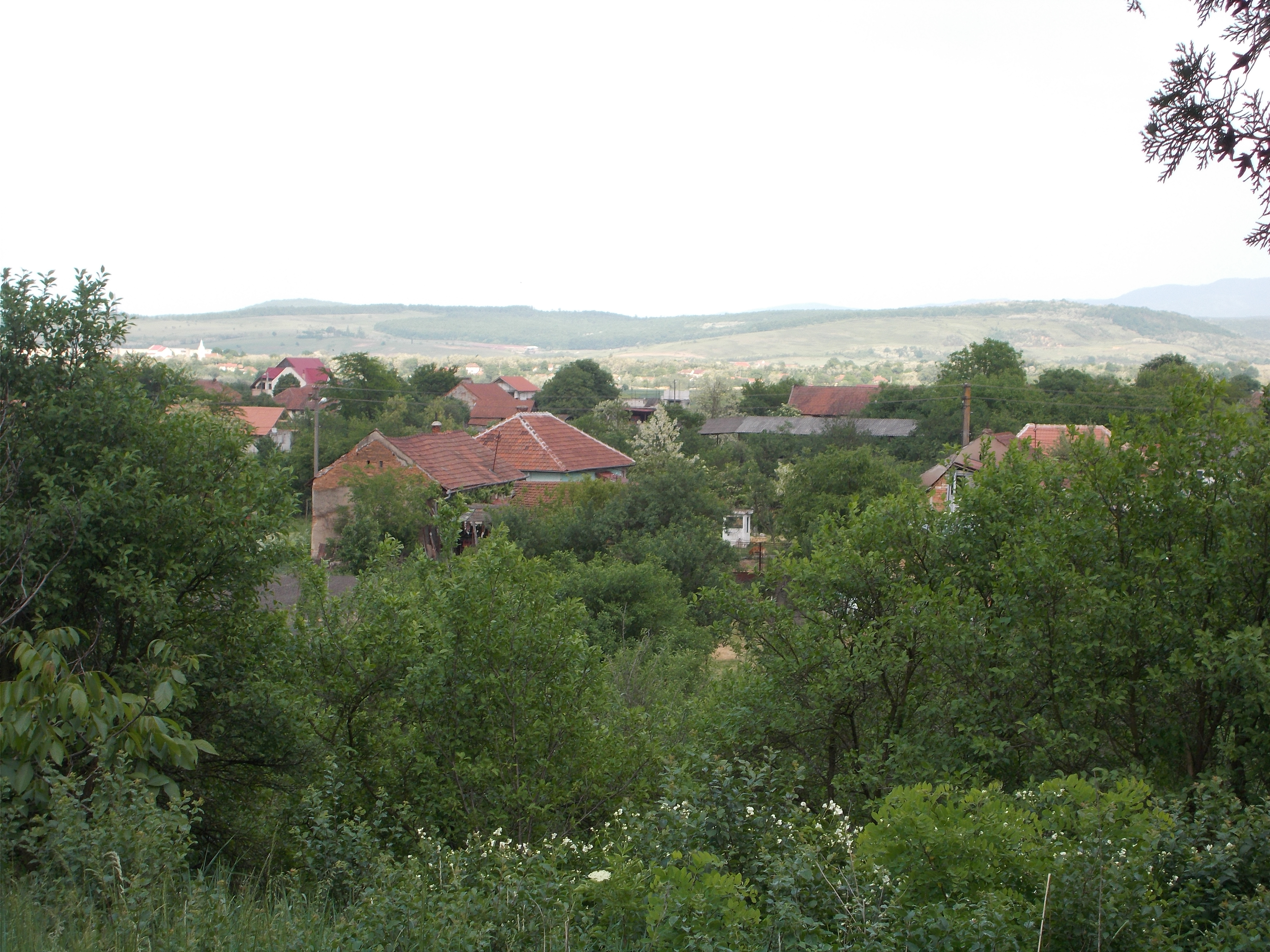 Strei, Hunedoara County, Romania